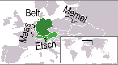 Map indicating geographical borders (Maas, Memel, Etsch, Belt) of German speaking areas as mentioned in the first stanza of the Deutschlandlied of 1841, compared to current political borders and the areas where German is spoken today (marked green).